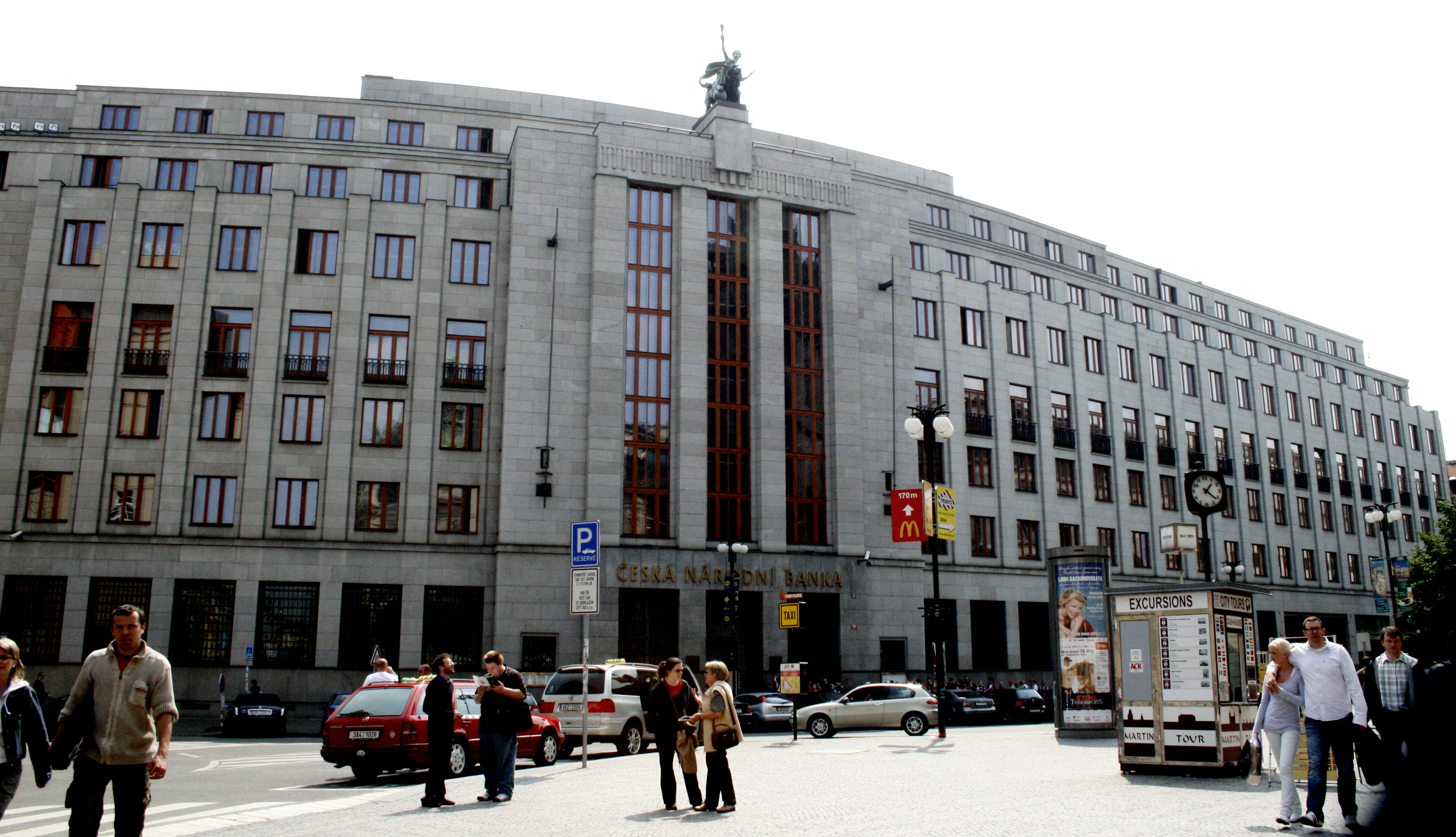 Building of Czech National Bank in Prague, front view.